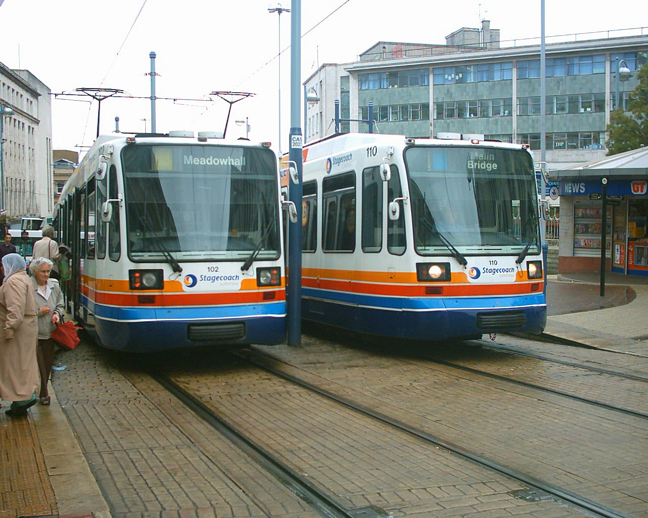 Sheffield Supetram #110 on Sheffield's Castle Square.